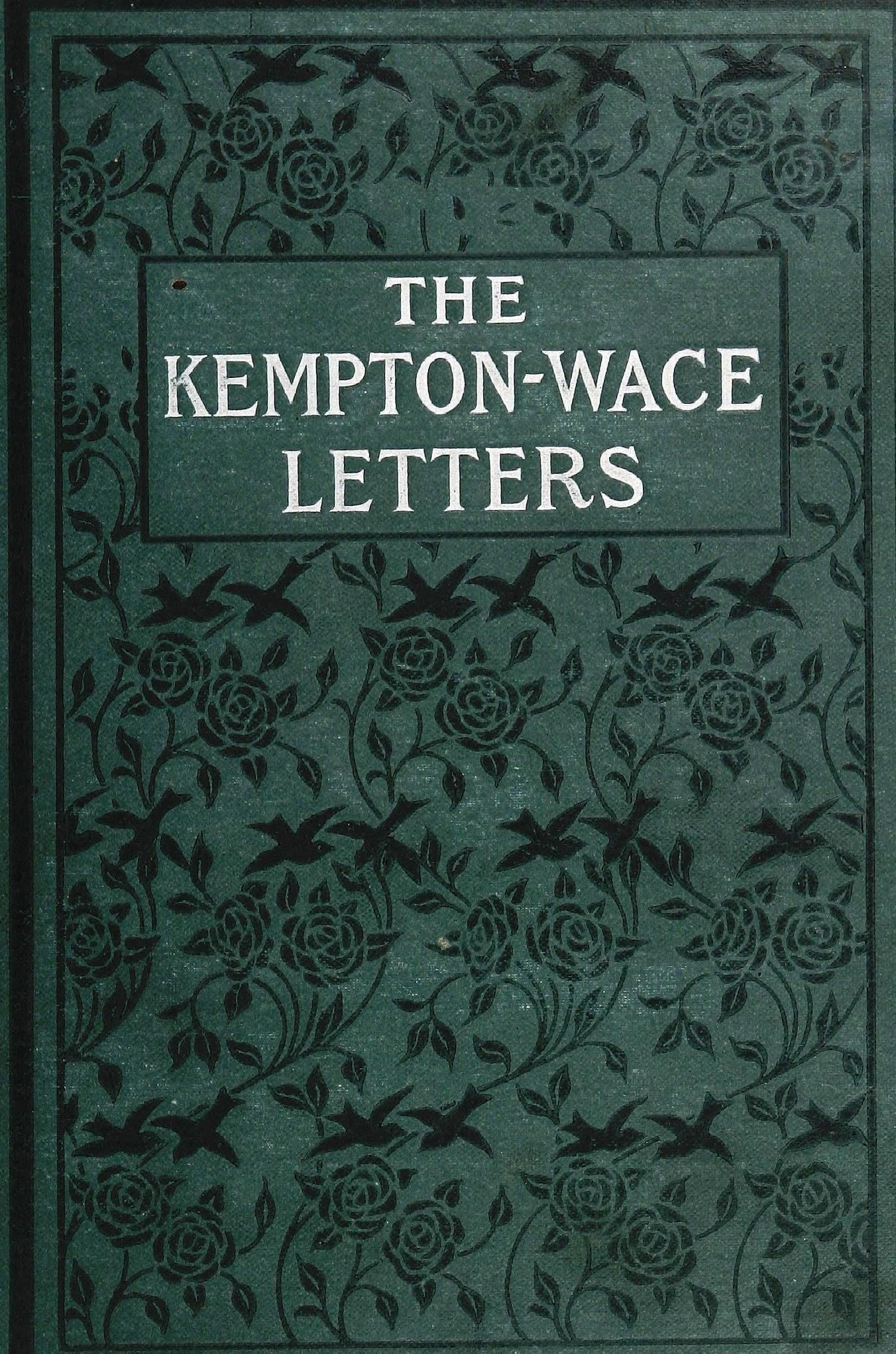 Cover of The Kempton-Wace Letters by Jack London 1st ed